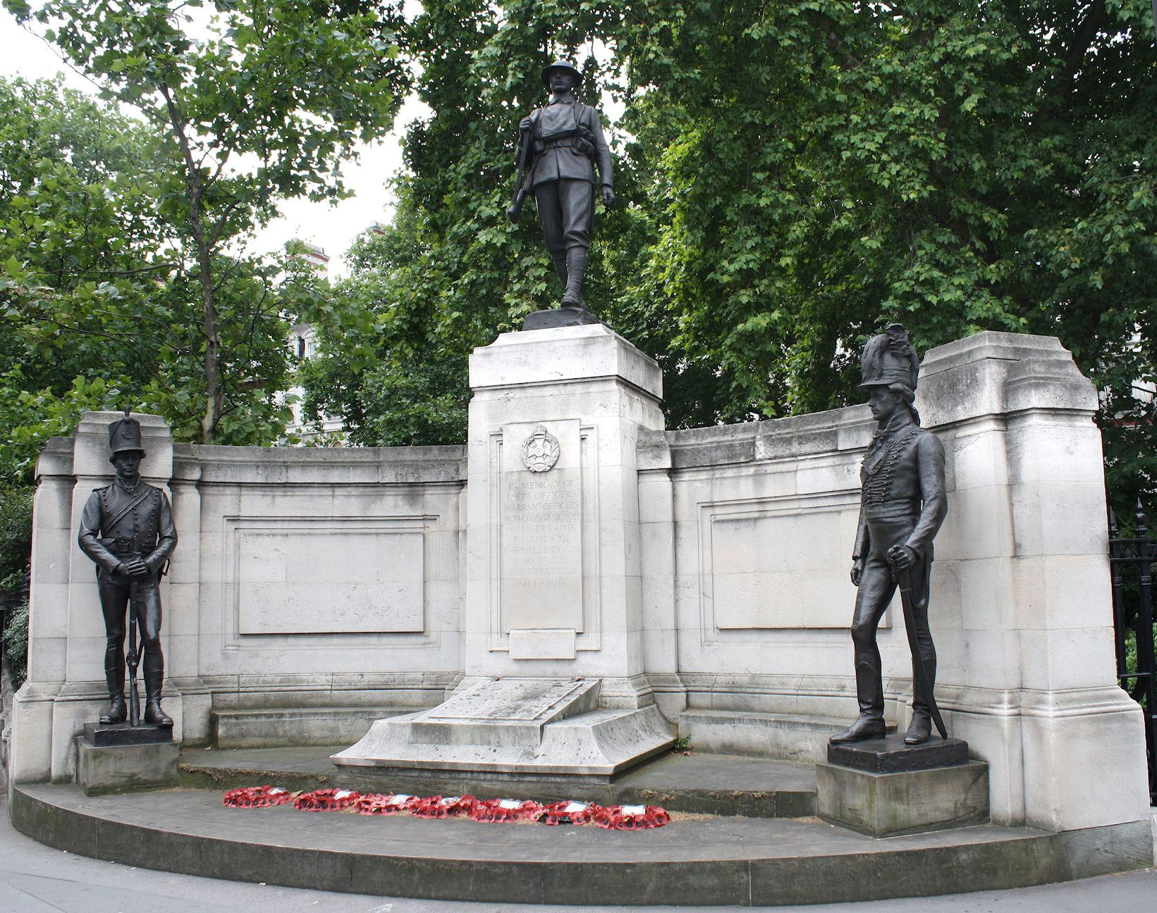 Rifle Brigade Memorial by John Tweed, 1924